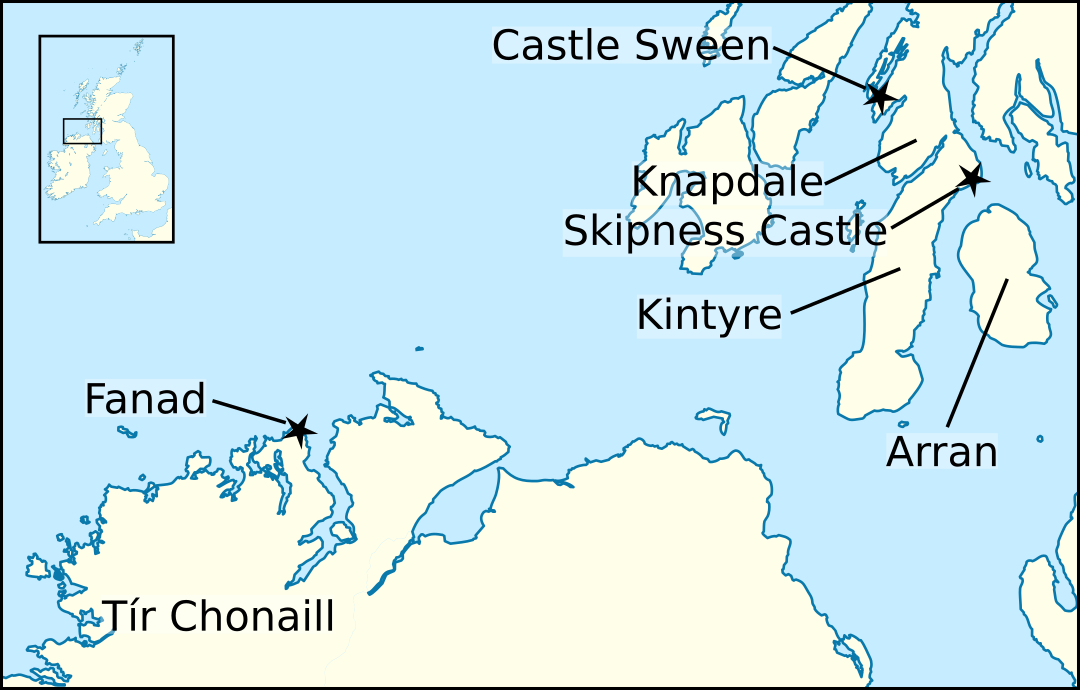 Map for the Wikipedia article concerning Eóin Mac Suibhne (fl. 1310).